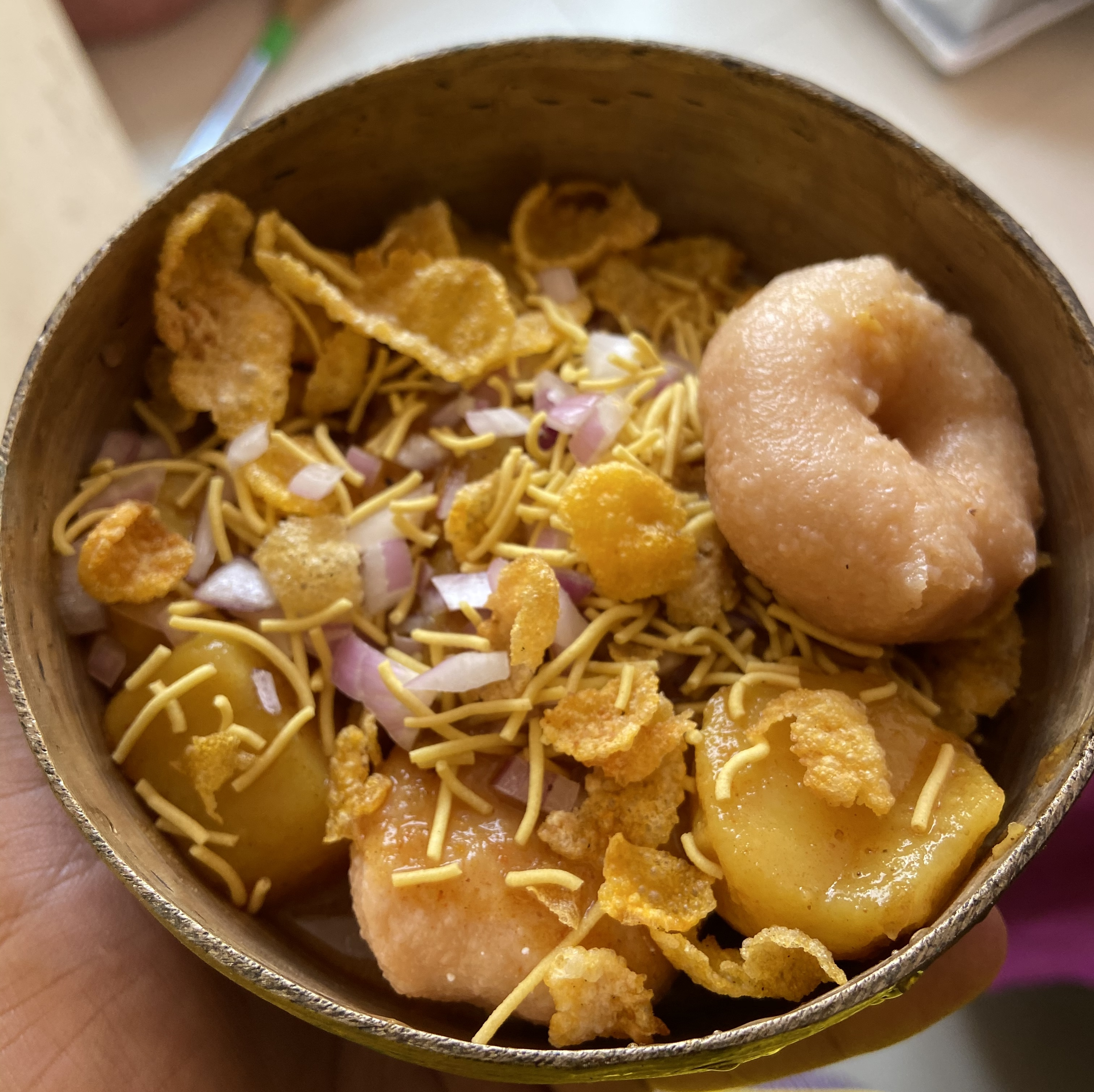 Odia street food Dahibara Aludam